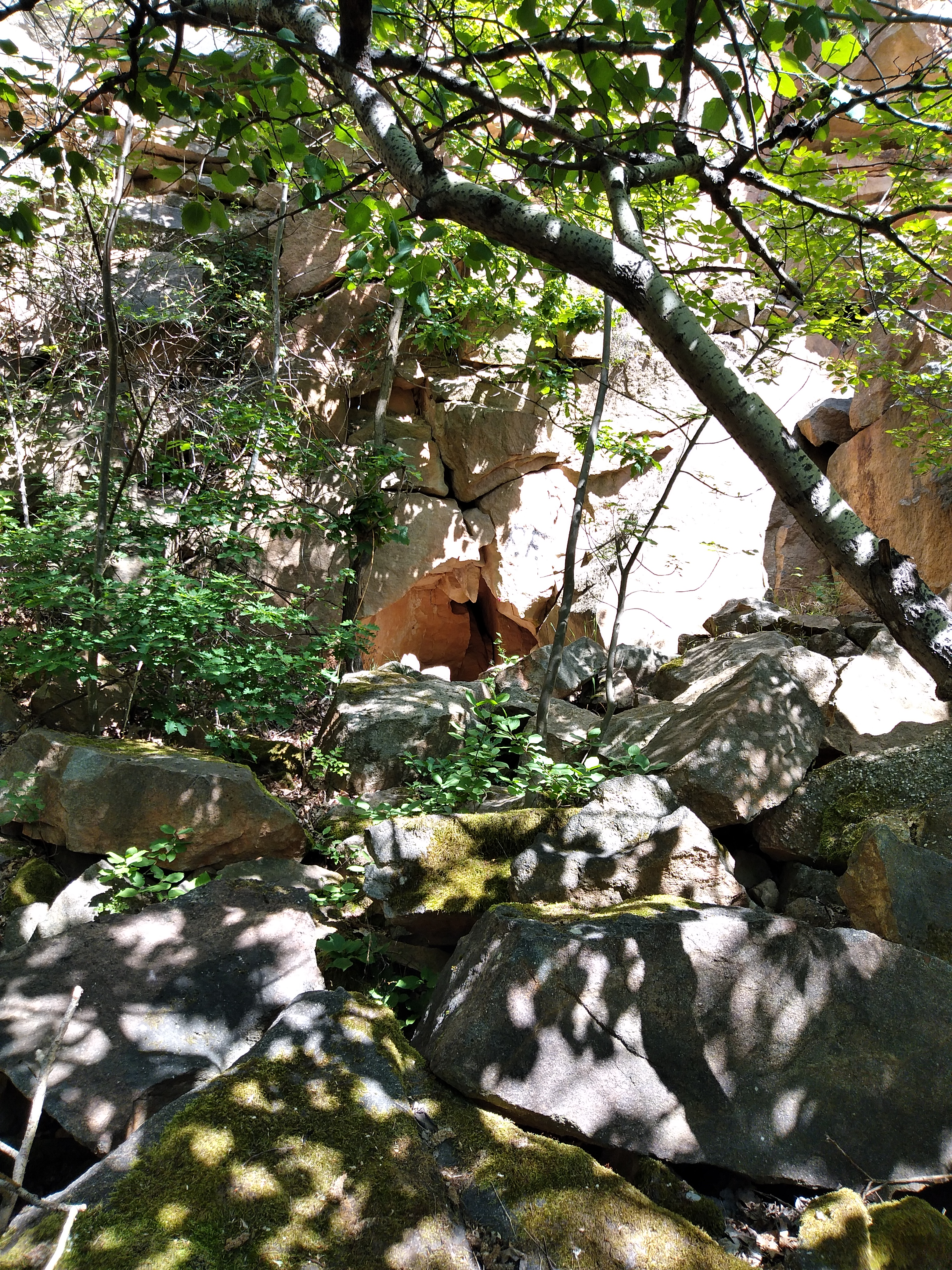 Entrance of the Papp Ferenc Cave (Hungary, Pilisborosjenő)